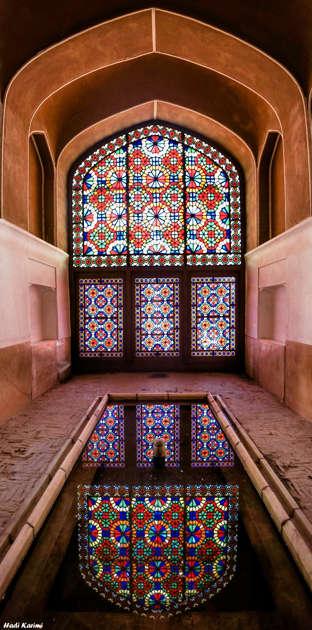 Colorful window, Dowlat Abad Garden